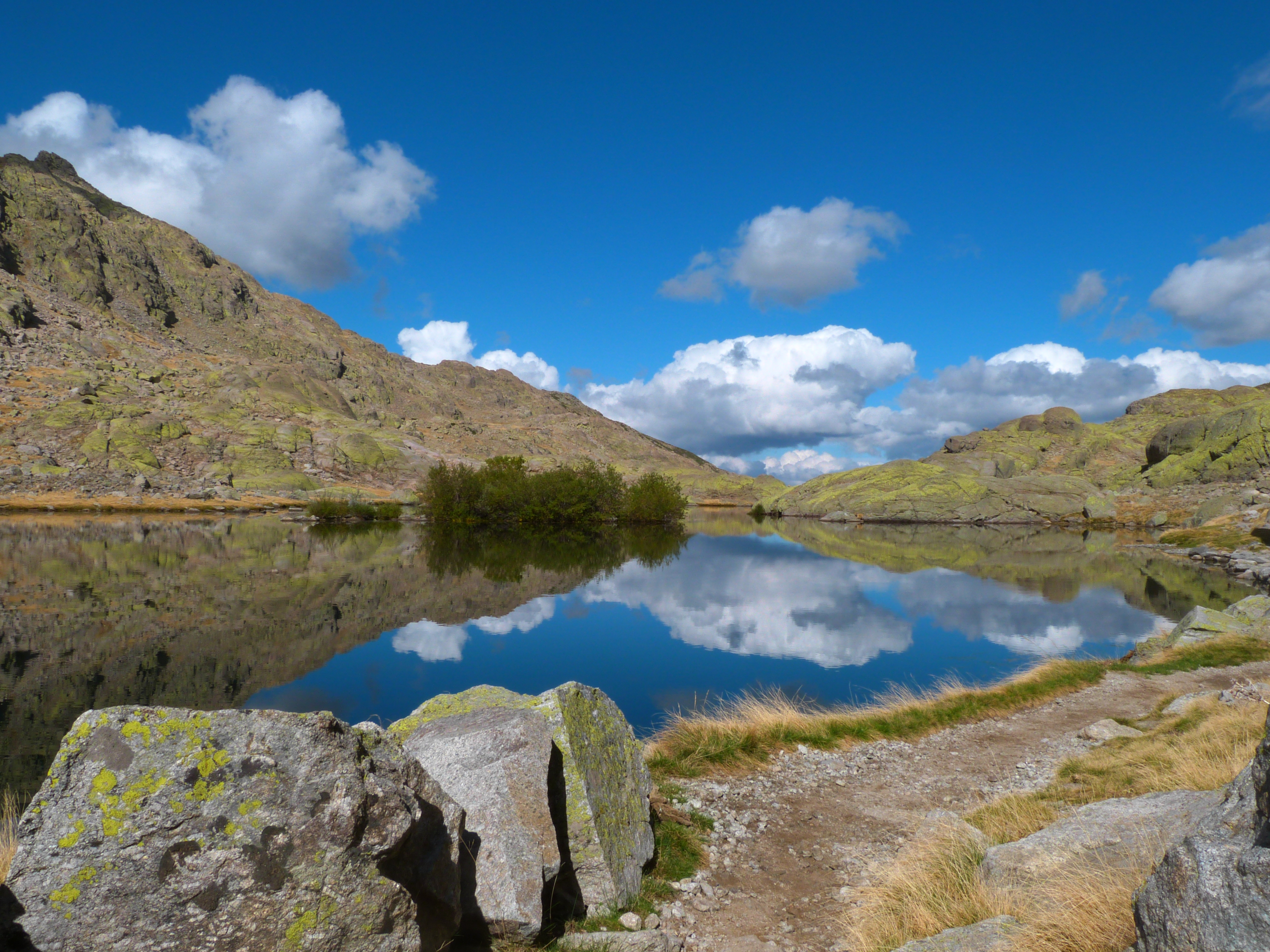 This is a photography of a Special Area of Conservation in Spain with the ID: ES4110002. Natura2000 entry, EEA entry